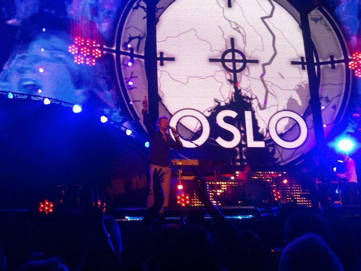 The living daylights live at Oslo Spektrum, 2010-10-30.